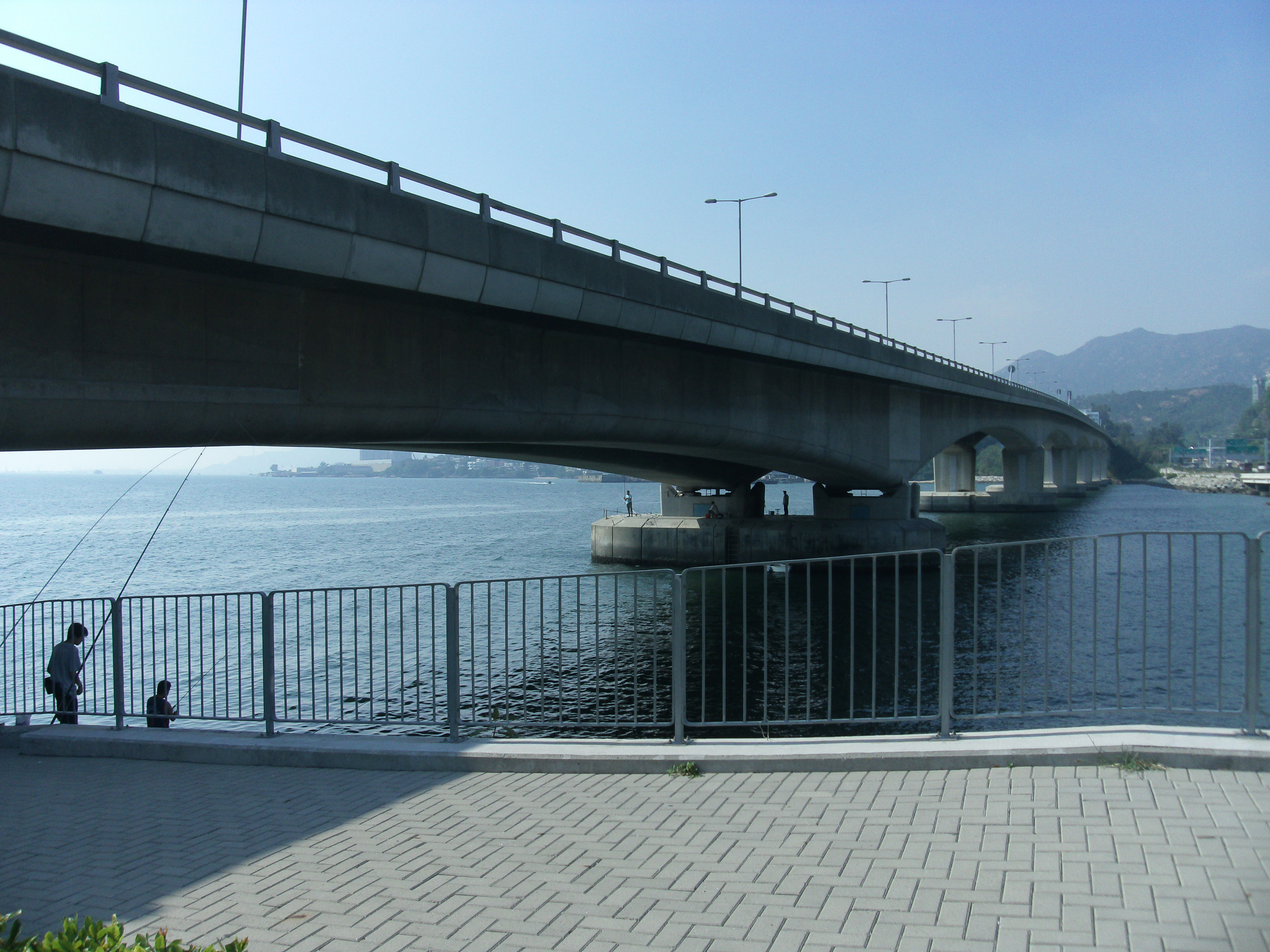 castle peak road - new tai lam